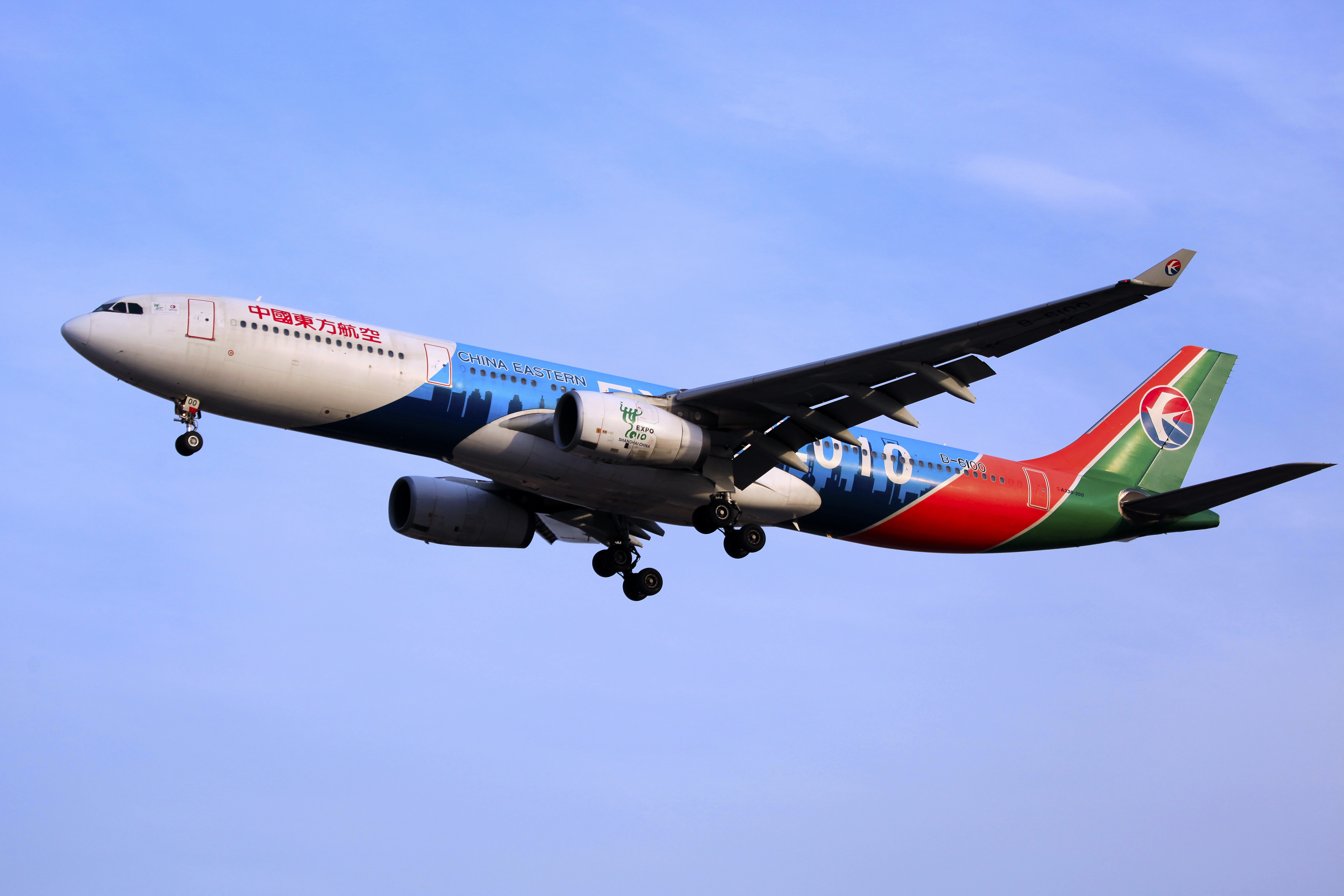 B-6100 | China Eastern Airlines | Airbus A330-343X | EXPO 2010 Livery | Shanghai Hongqiao International Airport [SHA]